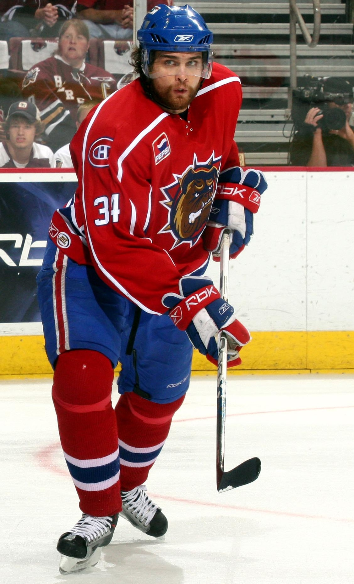 JustSports Photography